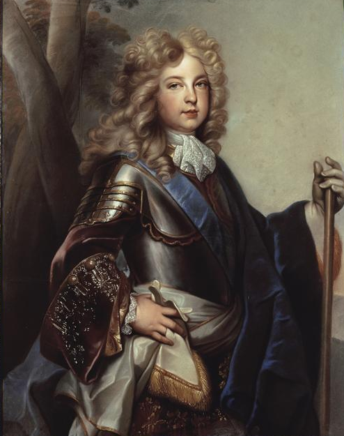 Portrait of Charles, Duke of Berry (1686–1714)